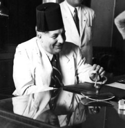 Riad as-Solh (1894-1951)